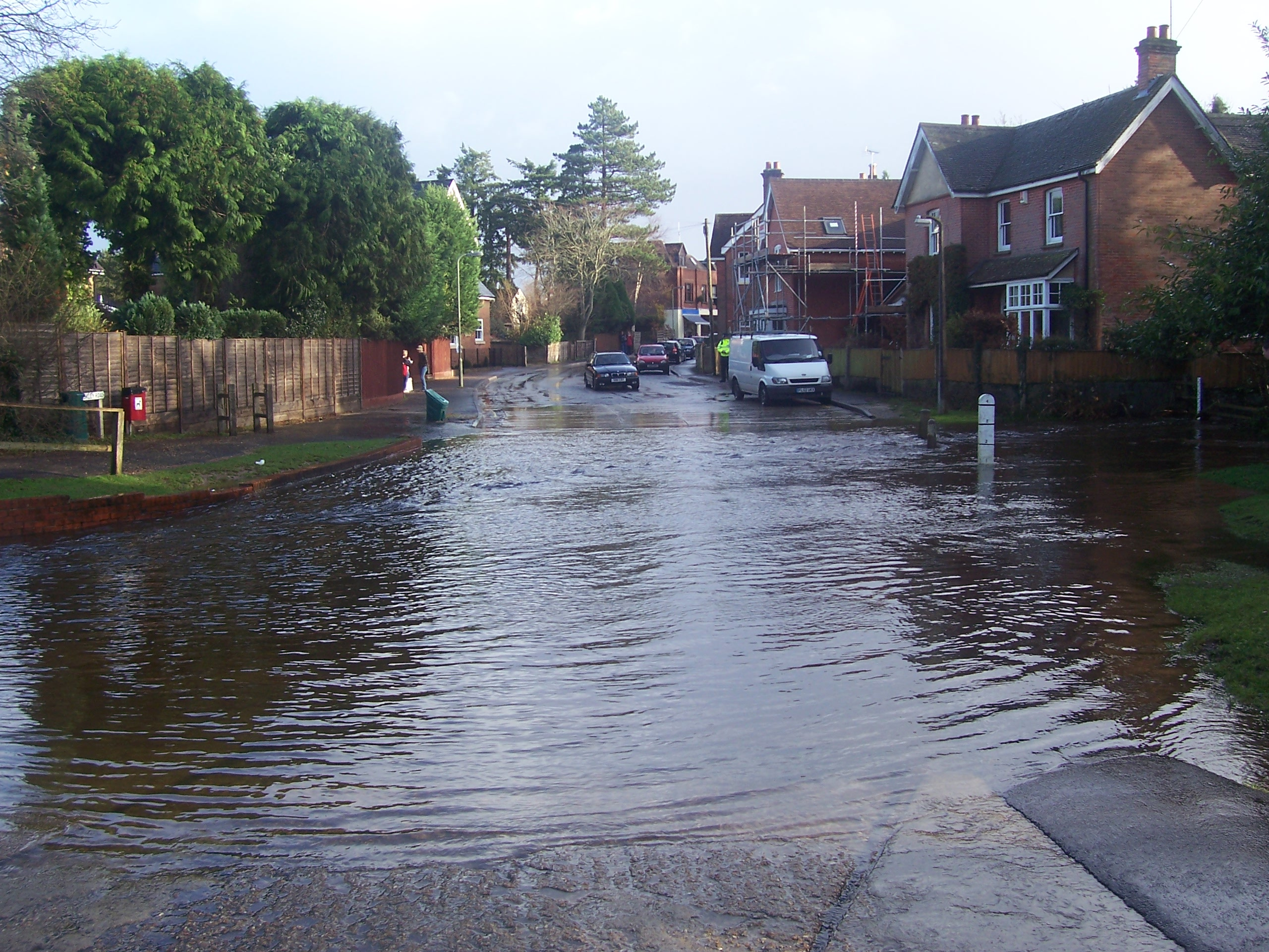 My own work, created on 7/12/06 at Brockenhurst, Hampshire, UK. Released to public domain